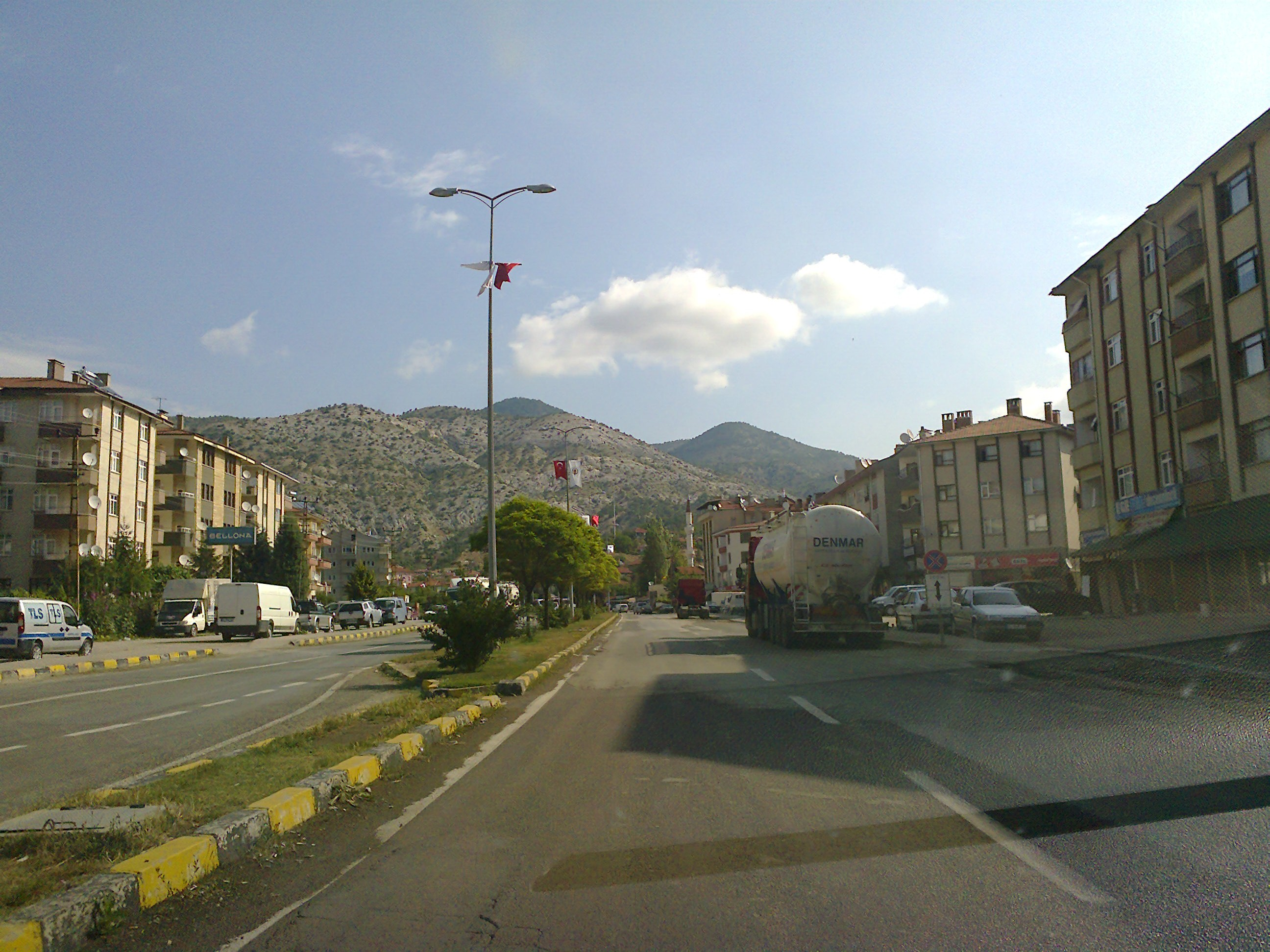 Main street, Nallıhan (Ankara, Turkey)